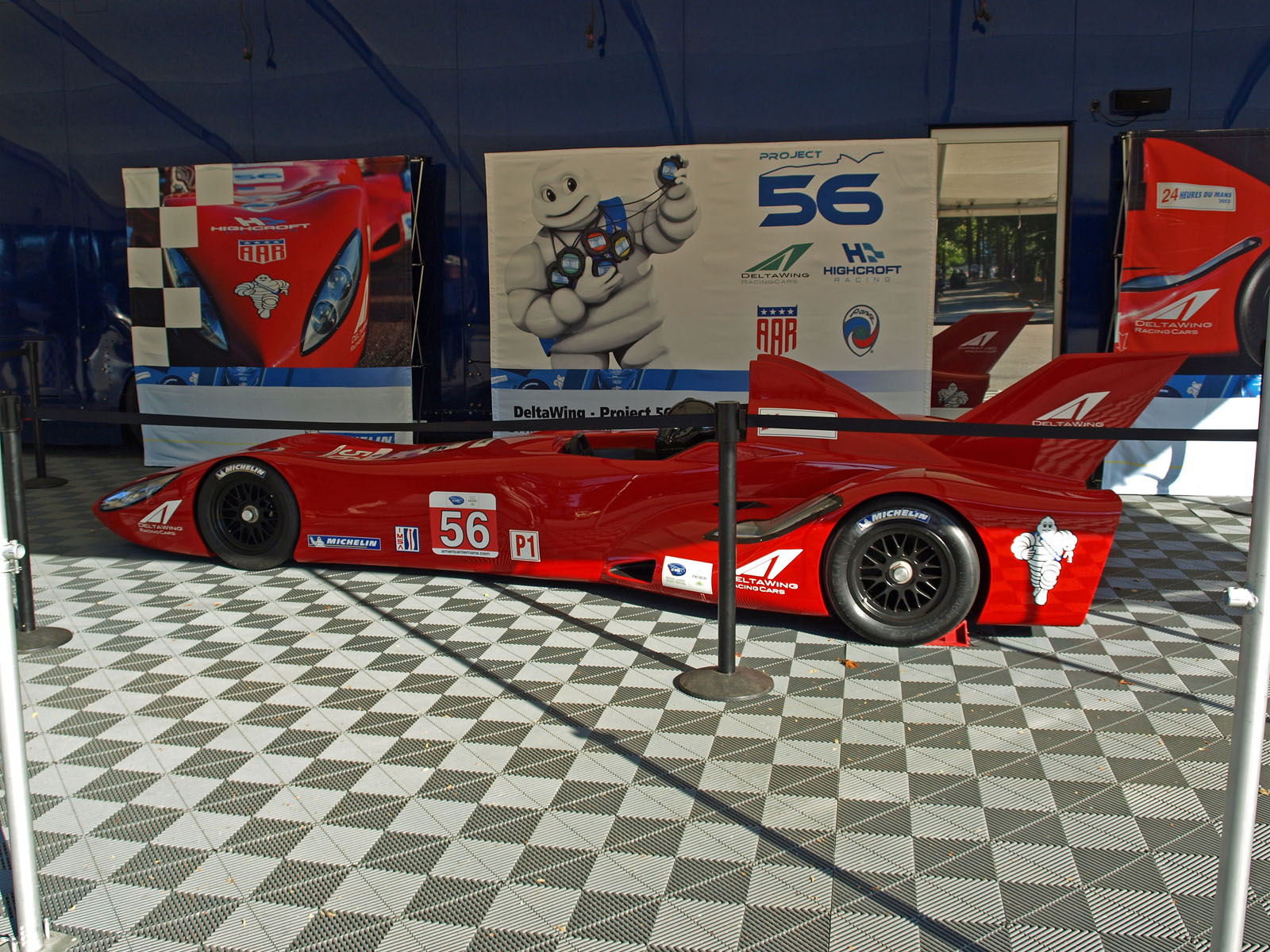 The DeltaWing on display at the 2011 Petit Le Mans at Road Atlanta.